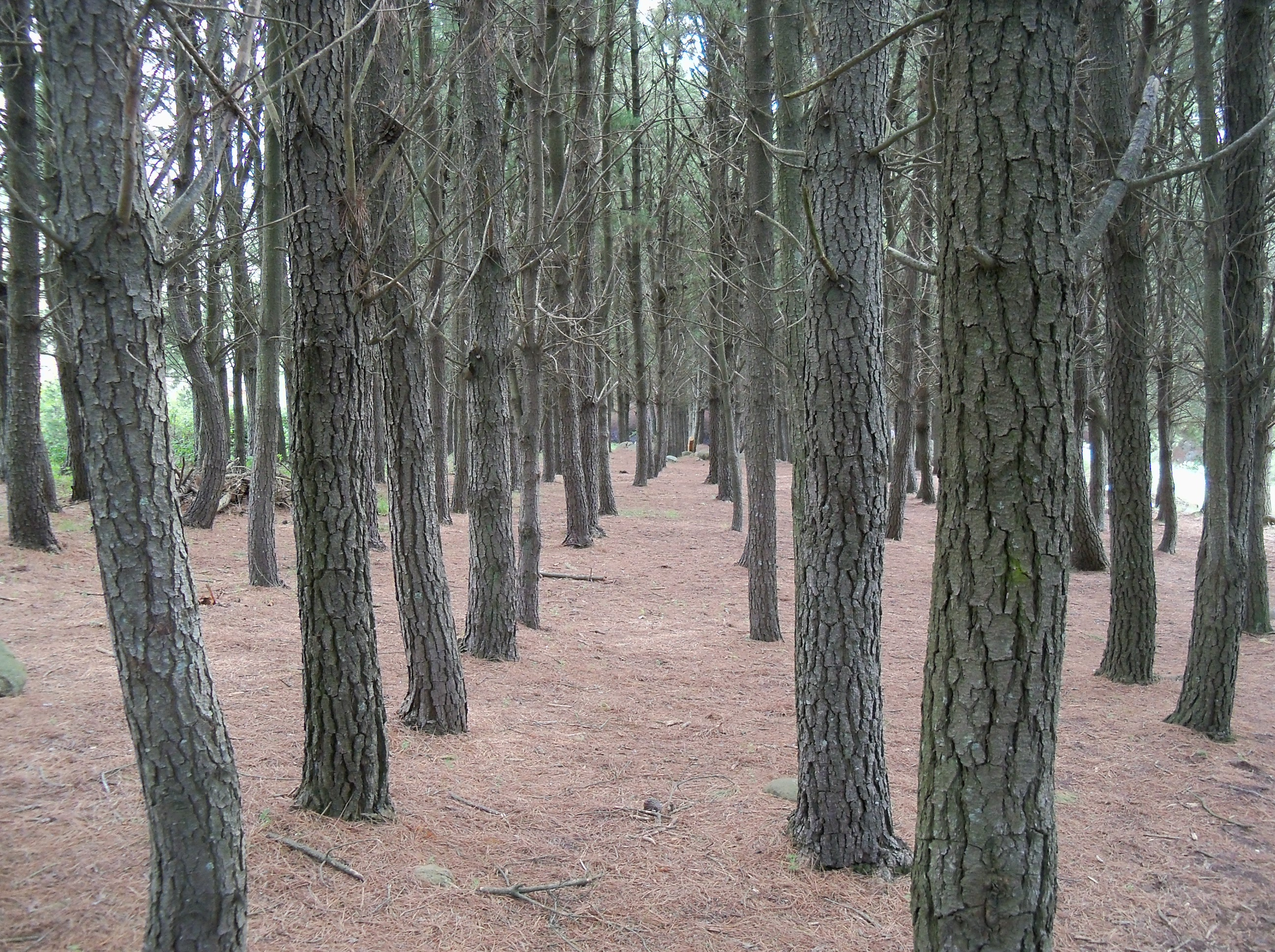 Artificial afforestation in pine rows, in the Tandil district, southeast of the province of Buenos Aires. The carpet of pine needles struggles to degrade and no natural vegetation is visible